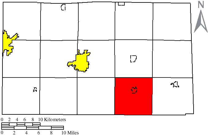 Made by the US Census and modified by myself